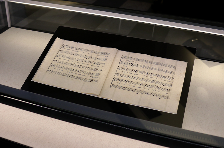 Per la ricuperata salute di Ofelia (music score)